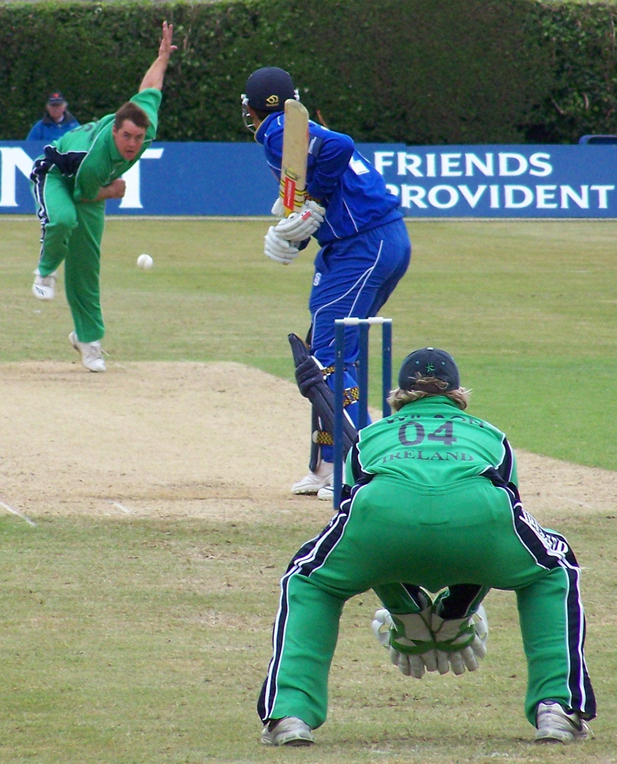 Ireland compete against Essex at Castle Avenue, Dublin, 13 May 2007, Friends Provident Trophy ECB BBC (Rory Deegan)